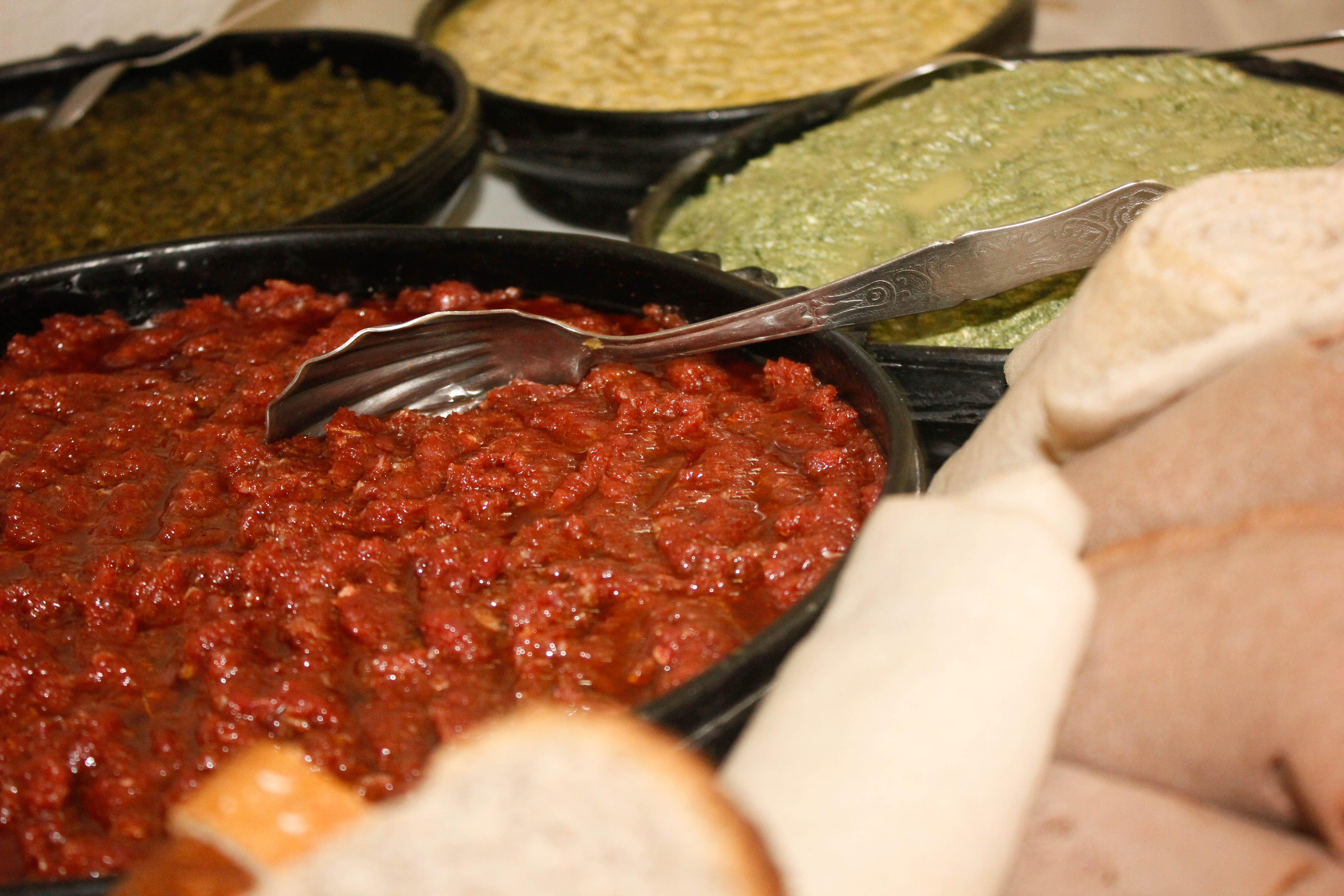 Kitfo(a traditional Ethiopian meal) with Ayib (traditionally prepared cottage cheese) along with Injera the national ethiopian staple This is an image of food from Ethiopia